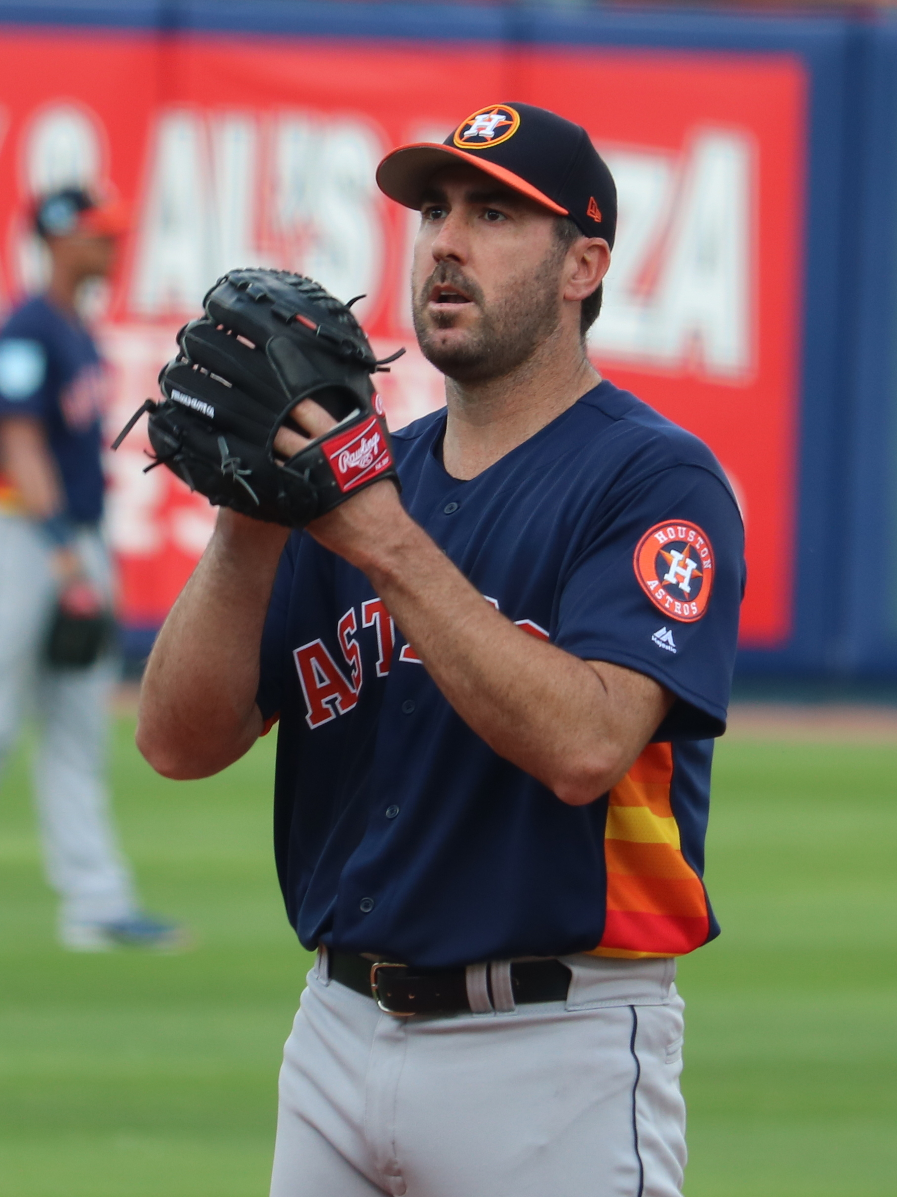 Justin Verlander ready to throw his pitch, March 2, 2019